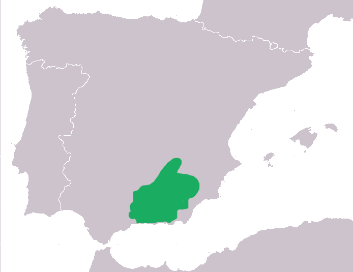 Range map of Alytes dickhilleni.